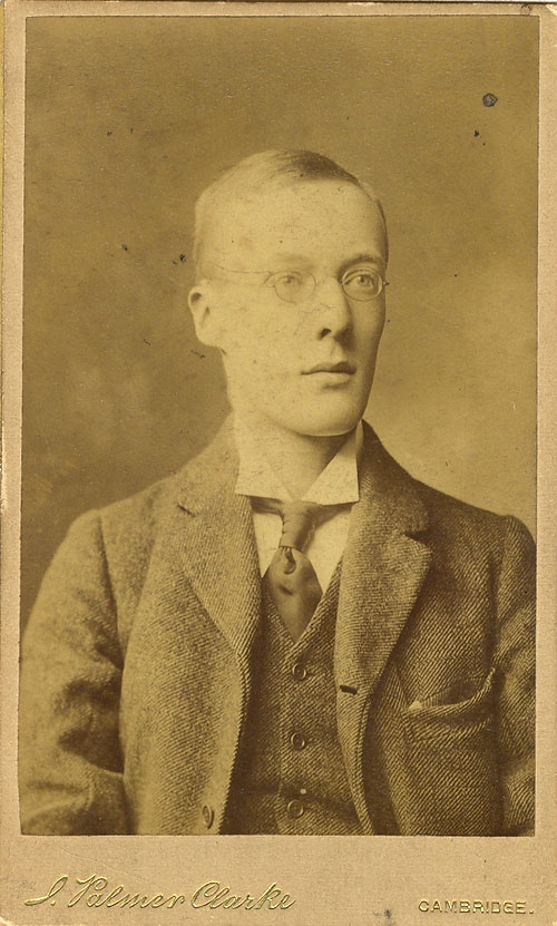 J. Palmer Clarke/King’s College, Cambridge EJD/5/1/1. Edward J. Dent, 1900